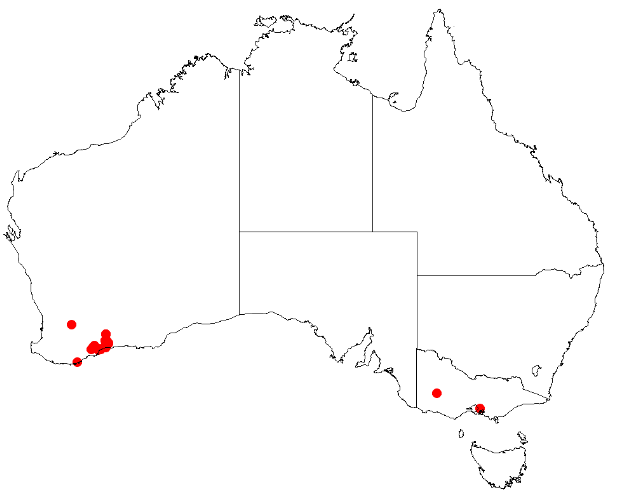 Hakea obtusa Occurrence data downloaded from AVH on 22 November 2018 using